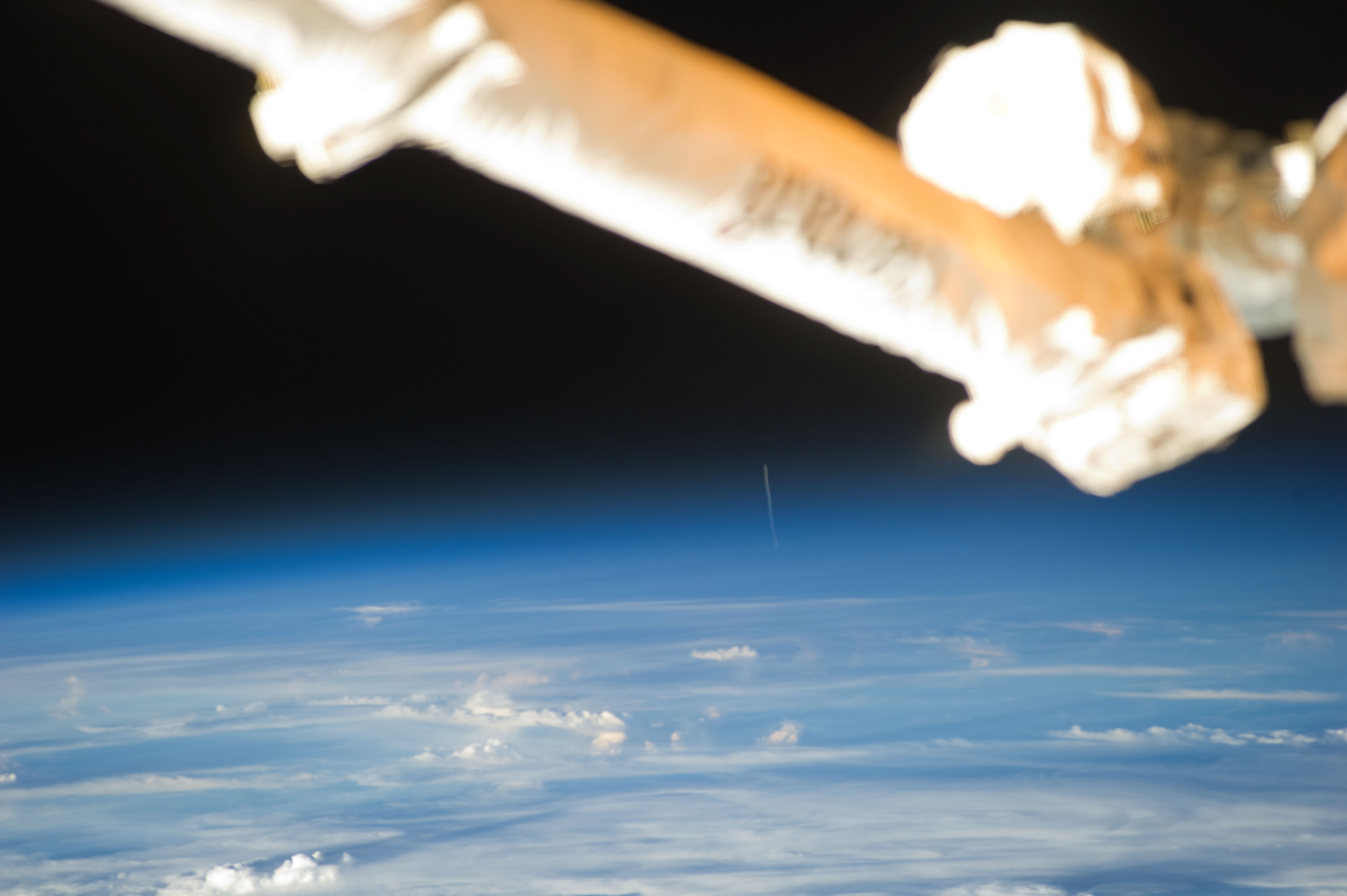 A view of ATV-2 Johannes Kepler as seen from the International Space Station during its launch aboard an Ariane 5 ES-ATV launch vehicle on 16 February 2011. The Expedition 26 crew member aboard the International Space Station who snapped this photograph of the Ariane 5 rocket, barely visible in the far background, just after lift off from Europe's Spaceport in Kourou, French Guiana, and the rest of the crew have a special interest in the occurrence. ESA's second Automated Transfer Vehicle, Johannes Kepler, was just a short time earlier (21:50 GMT or 18:50 Kourou time on Feb. 16, 2011) launched toward its low orbit destination and eventual link-up with the ISS. The unmanned supply ship is planned to deliver critical supplies and reboost the space station during its almost four-month mission. The elbow of Canadarm2 is in the foreground.